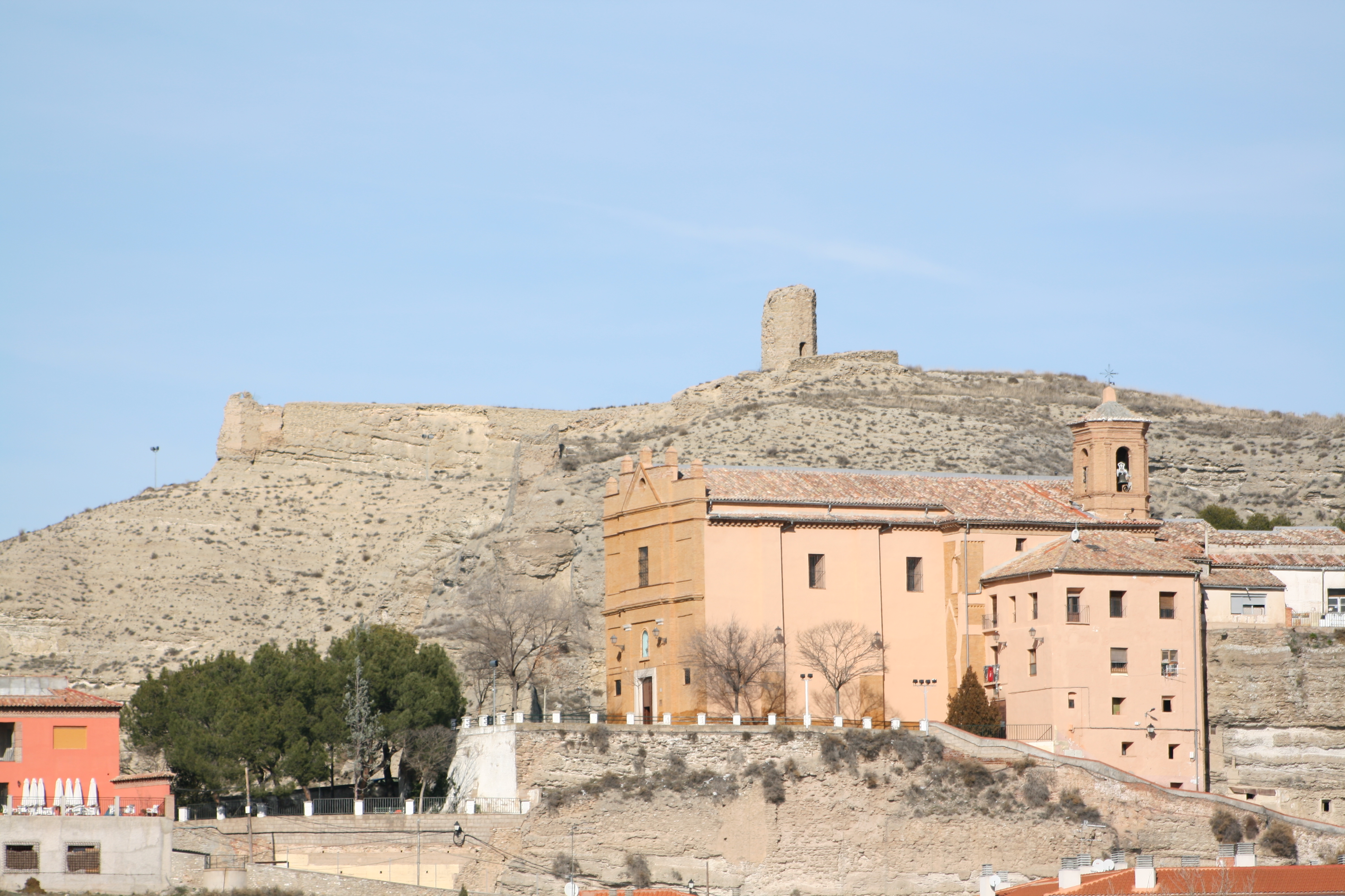 Church of the Virgen de la Peña, Calatayud, Spain